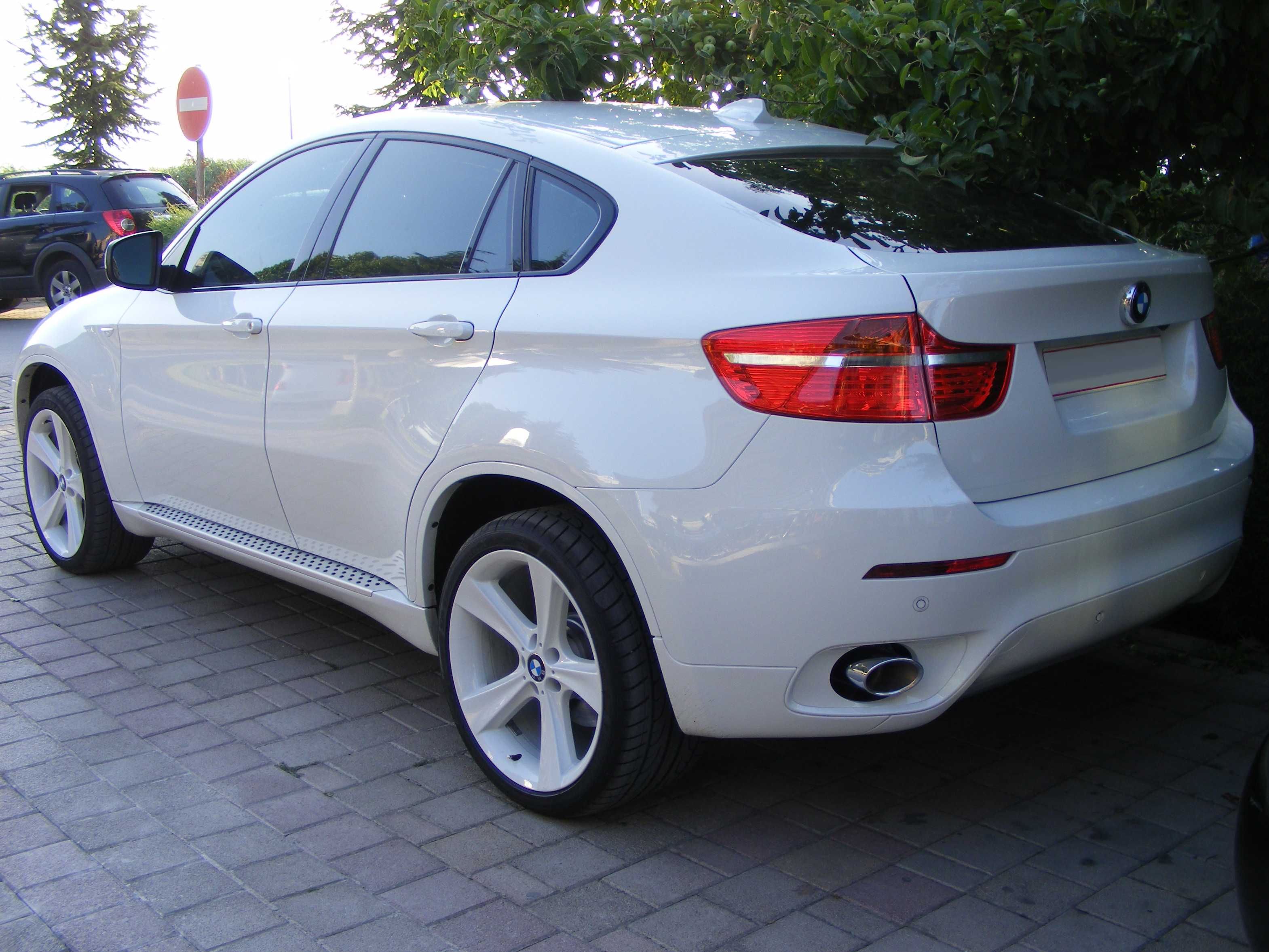 A photo of a white BMW X6 parked in Ohrid, Republic of Macedonia.